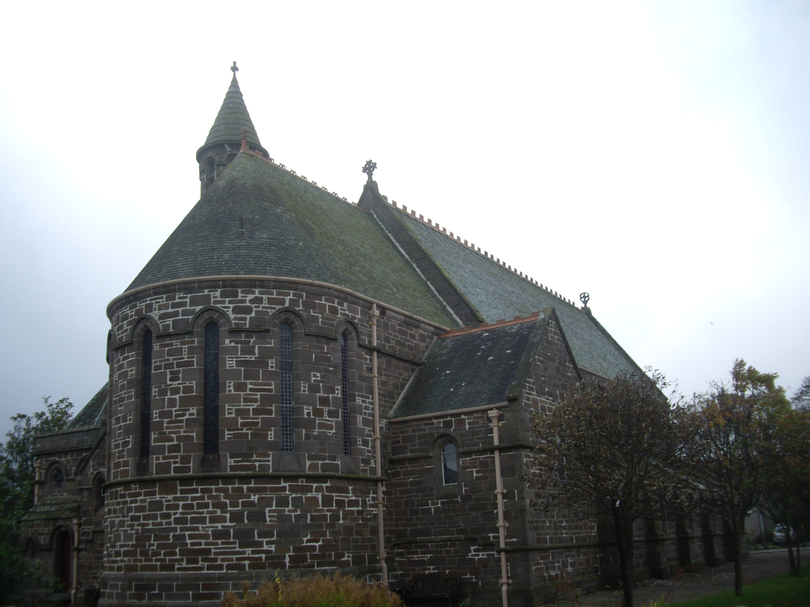 Apse of St James the Great, Stonehaven